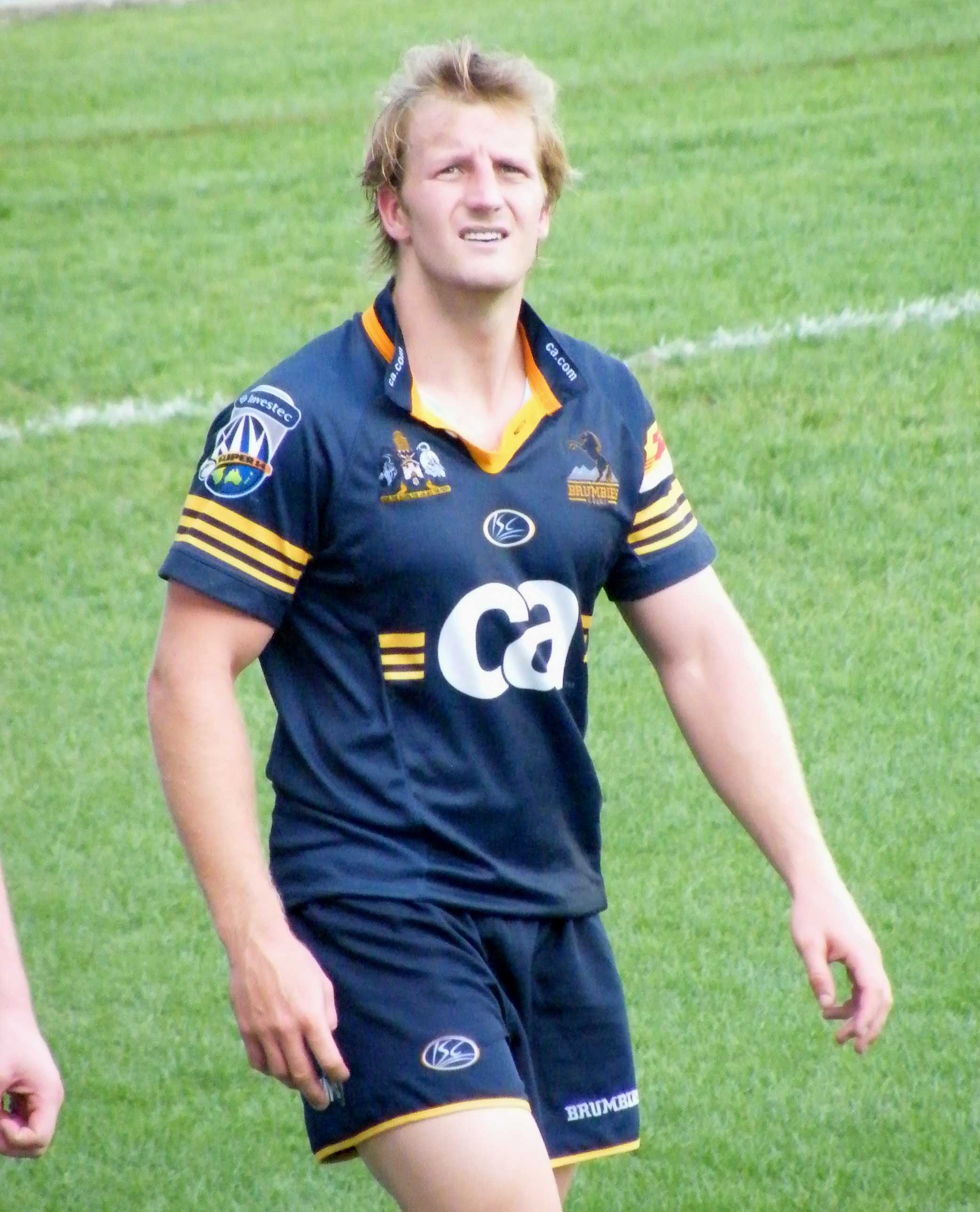 Brumbies half Patrick Phibbs.